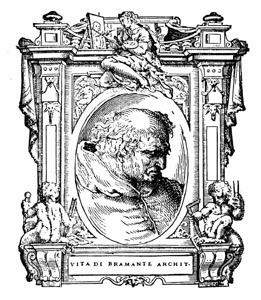 Illustratio from "Le Vite" by Giorgio Vasari, edition of 1568. For the artist portrayed see filename